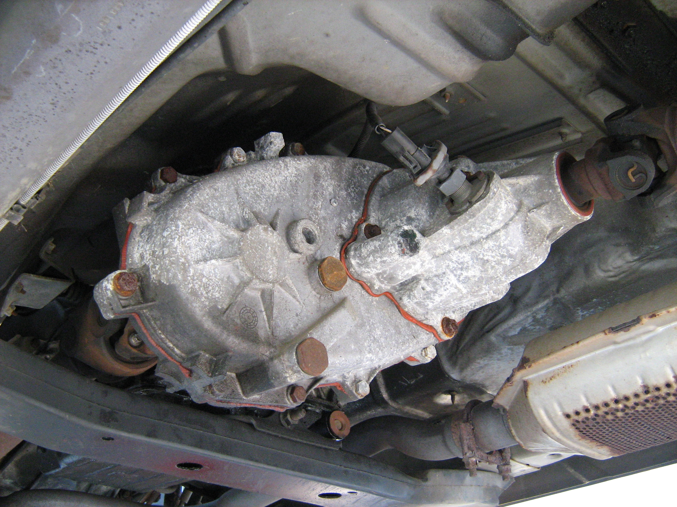 Center differential on a 1993 Jeep Grand Cherokee with a "Quadra-Trac" system featuring permanent all-time four-wheel drive. This is an early production ZJ model that was built in April 1992.